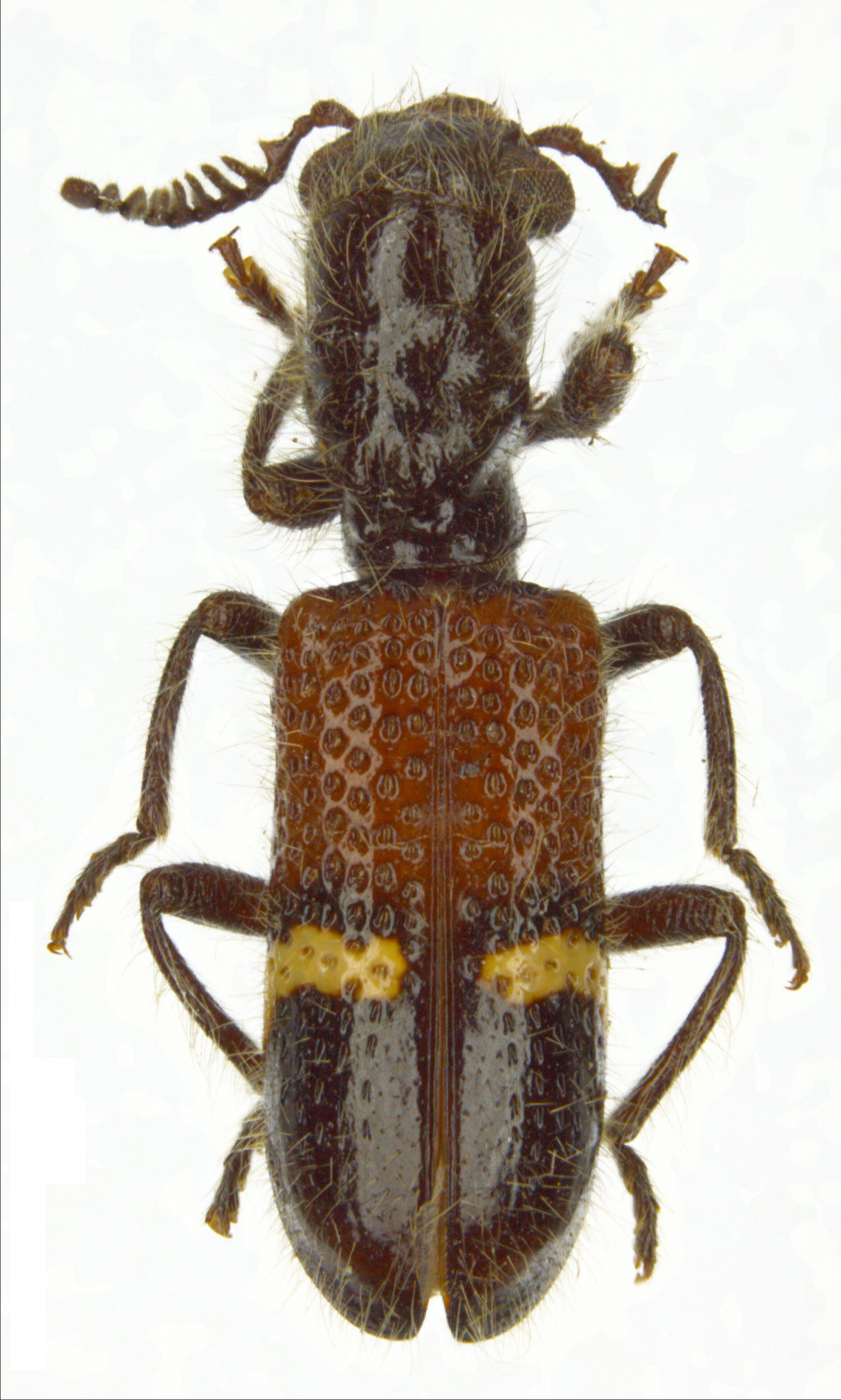 Diplocladus kuwerti, image taken with Leica Z6 microscope, automontage done with LAS (Leica Application Suite) 3.2.0